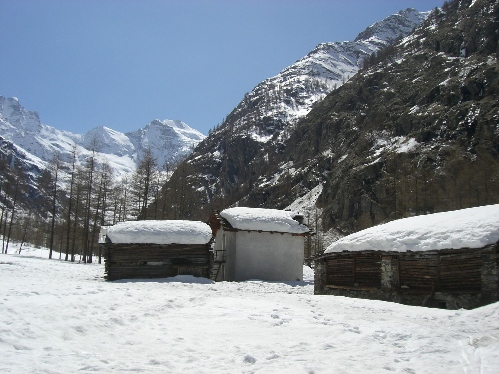 Houses in Valmiana (Cogne - Italy)